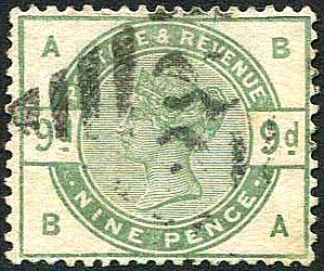 A possibly forged copy of the 1883-84 9d green stamp. Possibly forged by Lucian Smeets.